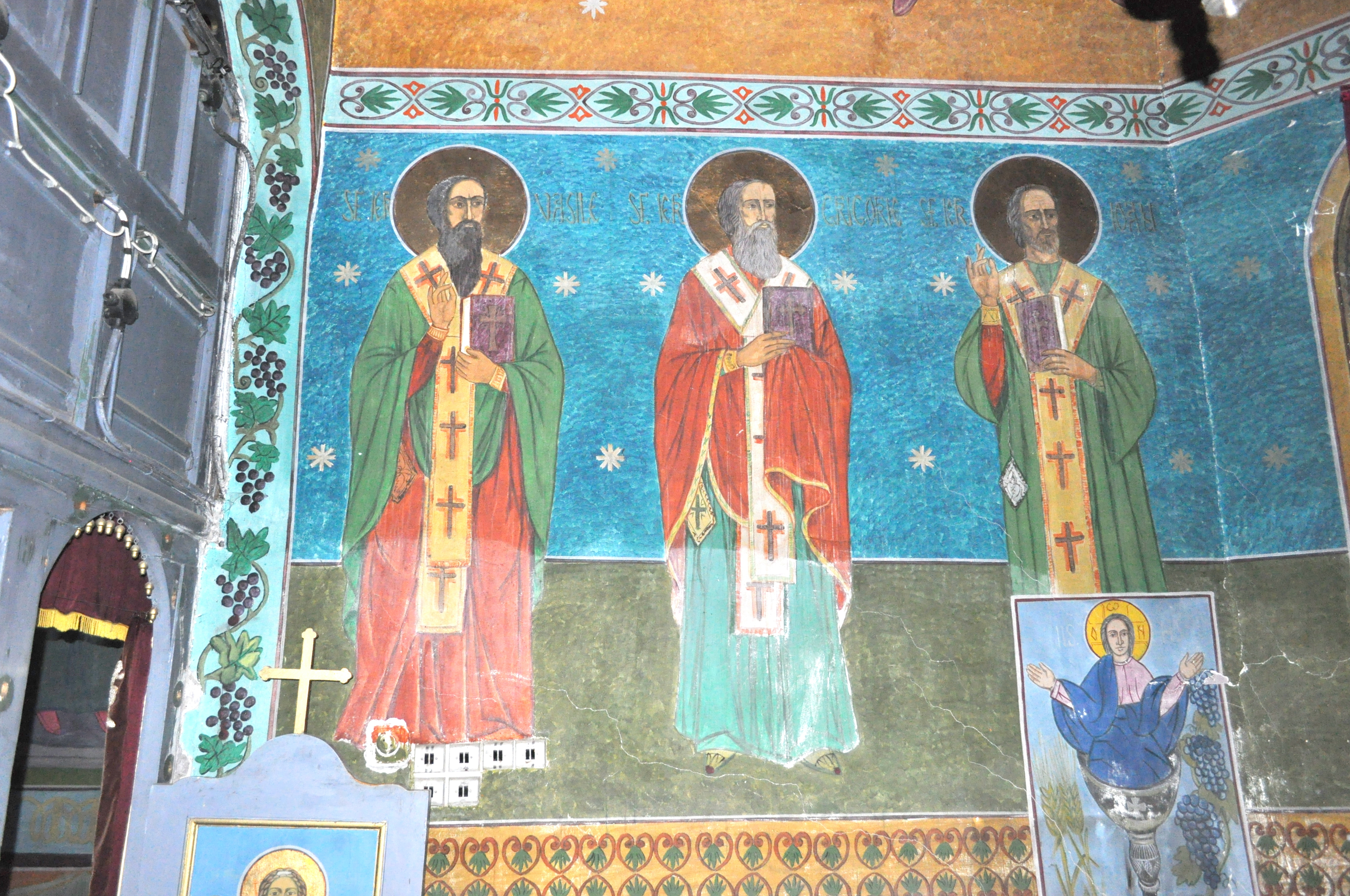 Orosfaia, Bistrița-Năsăud county, Romania